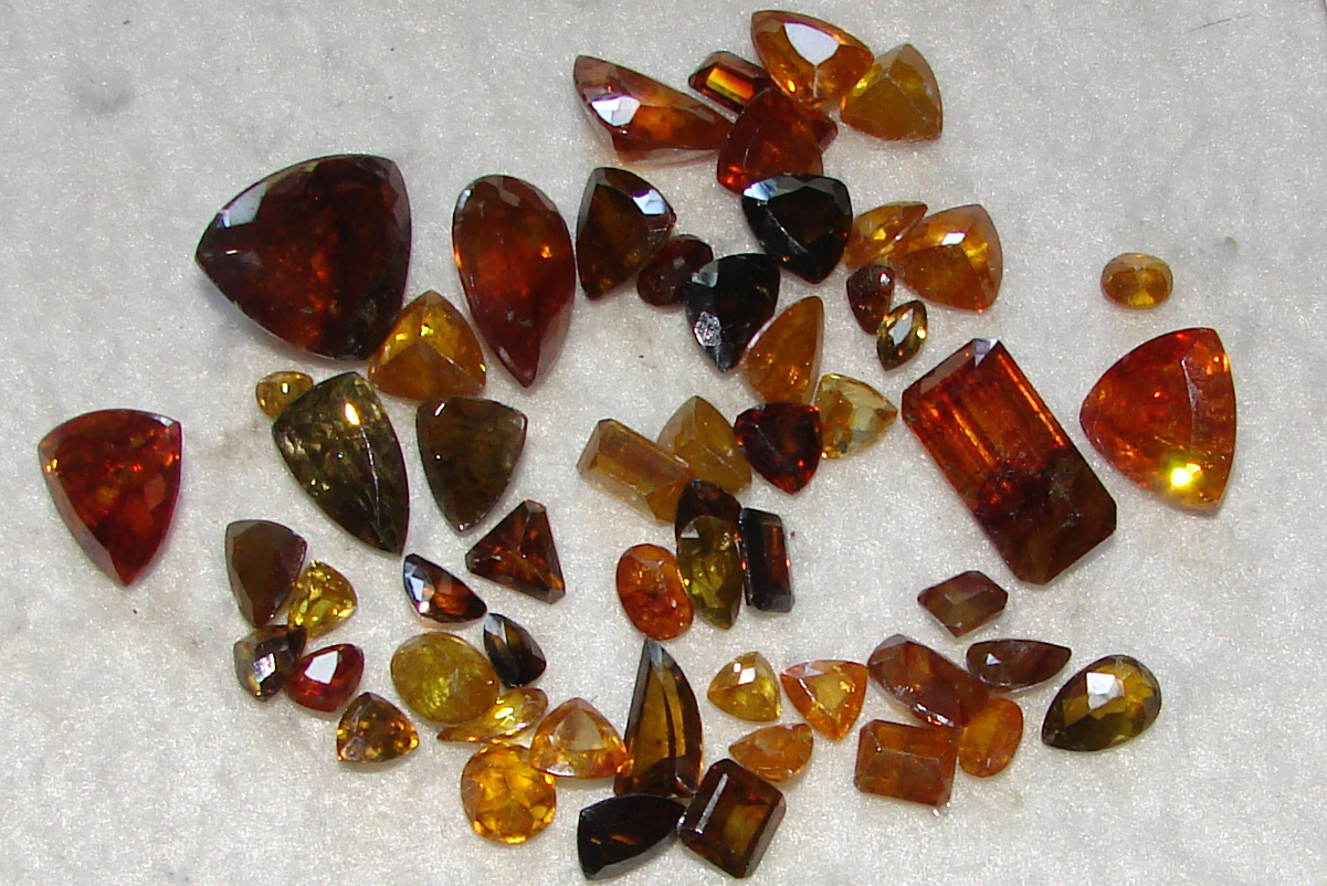 Sphalerite cut from Minas Gerais, Brazil. Gem cutting by Afonso Marques.